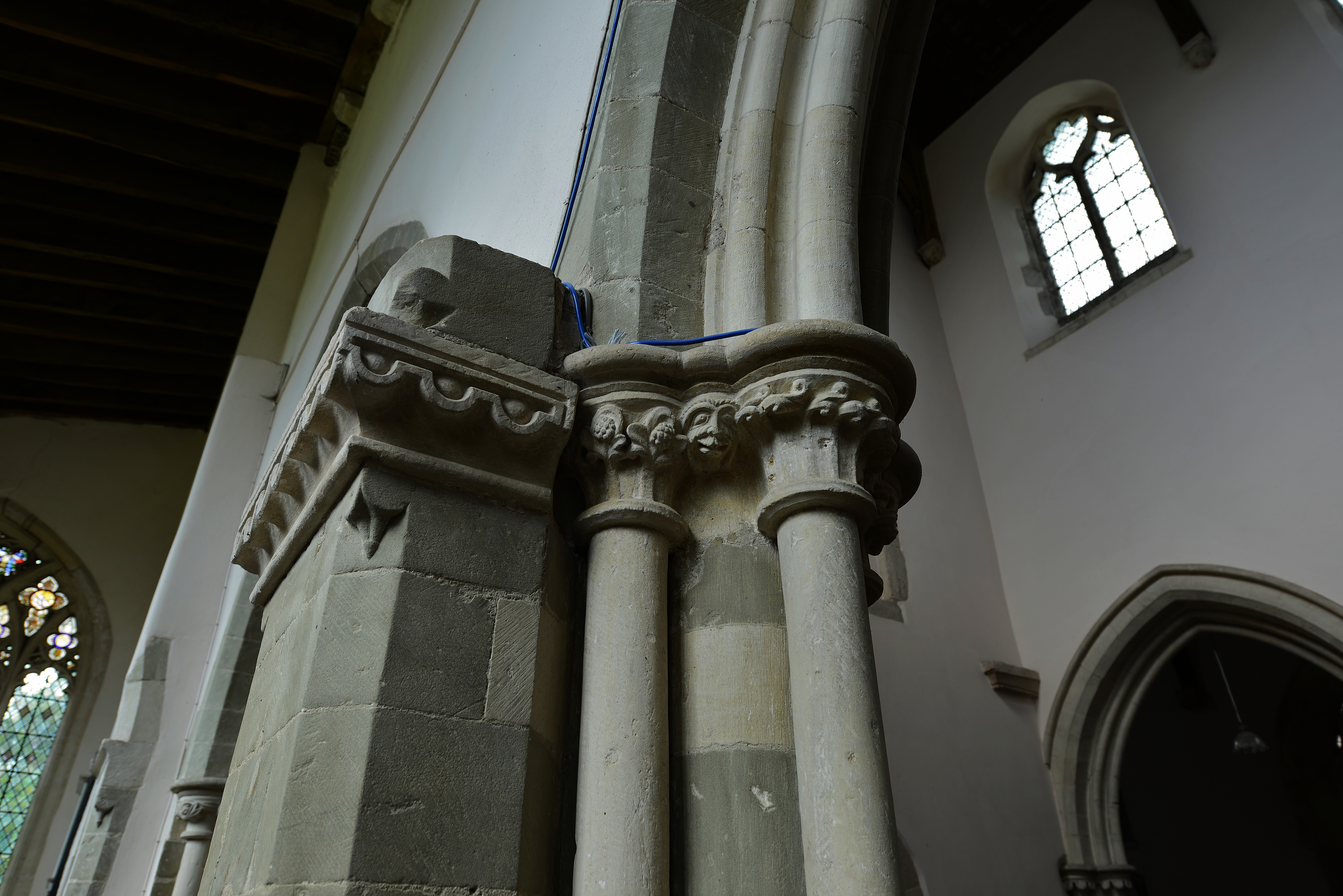 Part of the Early English Gothic arcade of the south aisle of the priory church of St Mary, Deerhurst, Gloucestershire